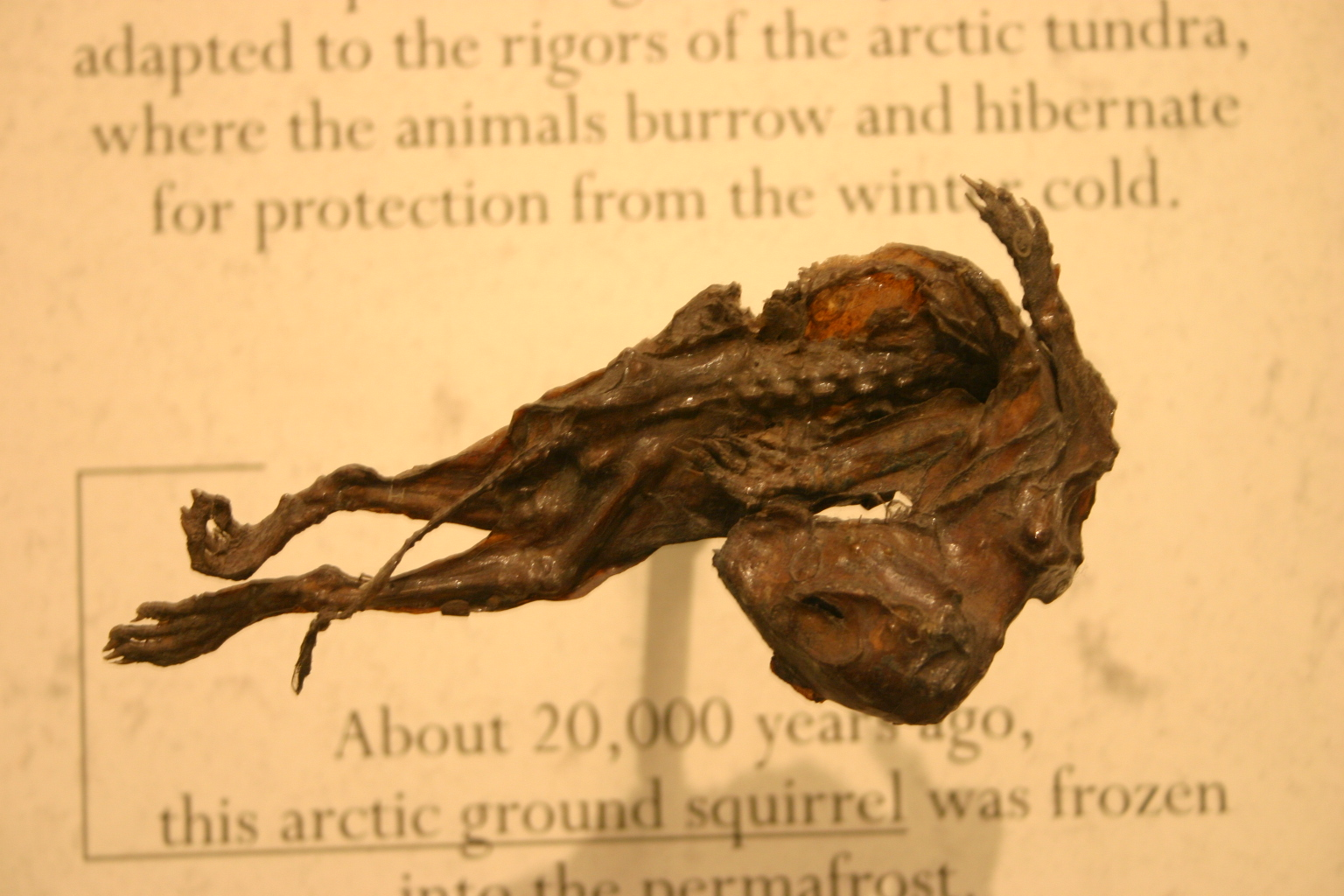 Mummified arctic ground squirrel Spermophilus parryii frozen in permafrost 20,000 years ago.